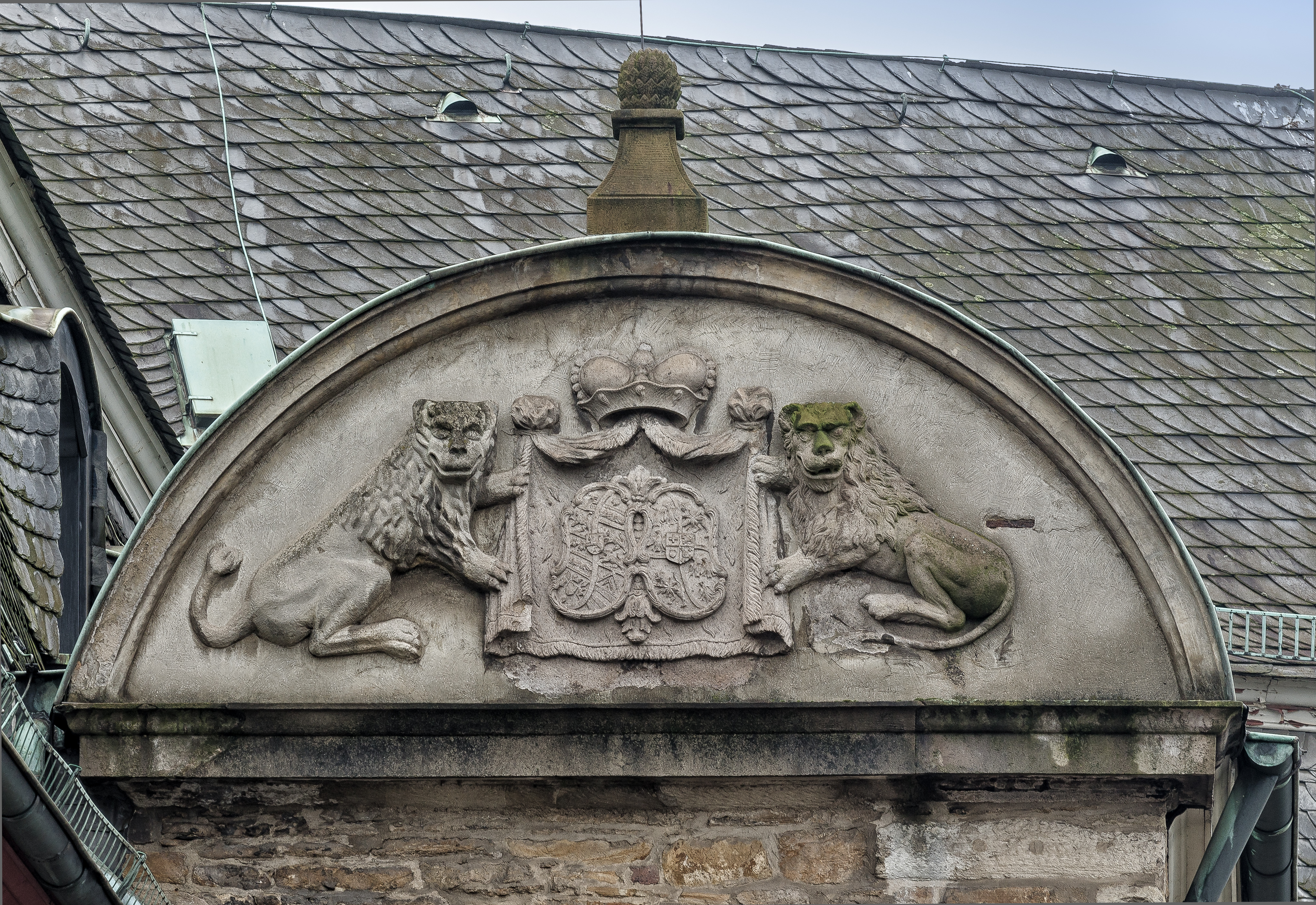 Pediment oval of the new construction of Broich Castle from 1789 showing two coat of arms: at the left Coat of Arms of Hesse-Darmstadt, at the right: coats of arms of the county of Leiningen-Dagsburg[1]